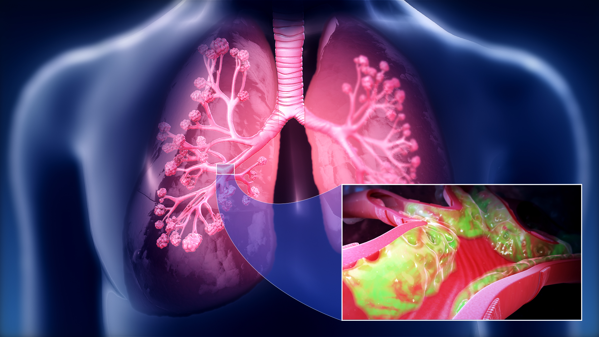 3D medical animation still showing increased mucus which can lead to lung cancer, or chronic obstructive pulmonary disease.